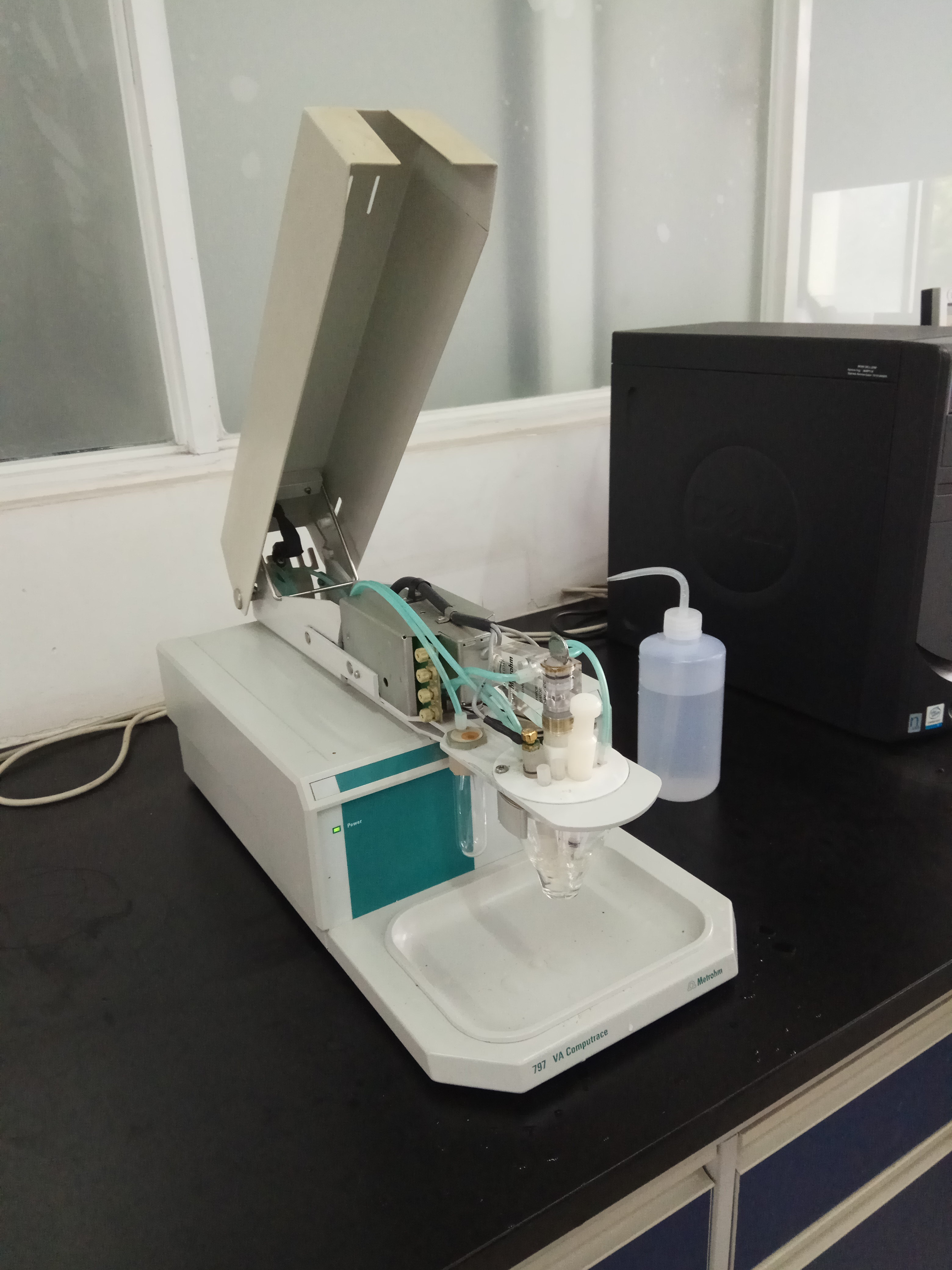 A polarograph instrument. 中文（中国大陆）: 瑞士万通 797 伏安极谱仪。